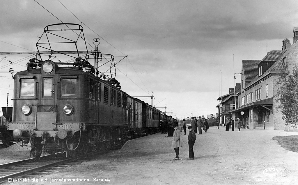 "Electric train at the railway station" in Kiruna, Lapland. "Elektriskt tåg vid järnvägsstationen" i Kiruna. Parish (socken): Kiruna Province (landskap): Lappland Municipality (kommun): Kiruna County (län): Norrbotten Photograph by: Unknown. Almquist & Cöster Date: 1940-1959 Format: Cliché, glass plate with text Persistent URL: Read more about the photo database (in english)